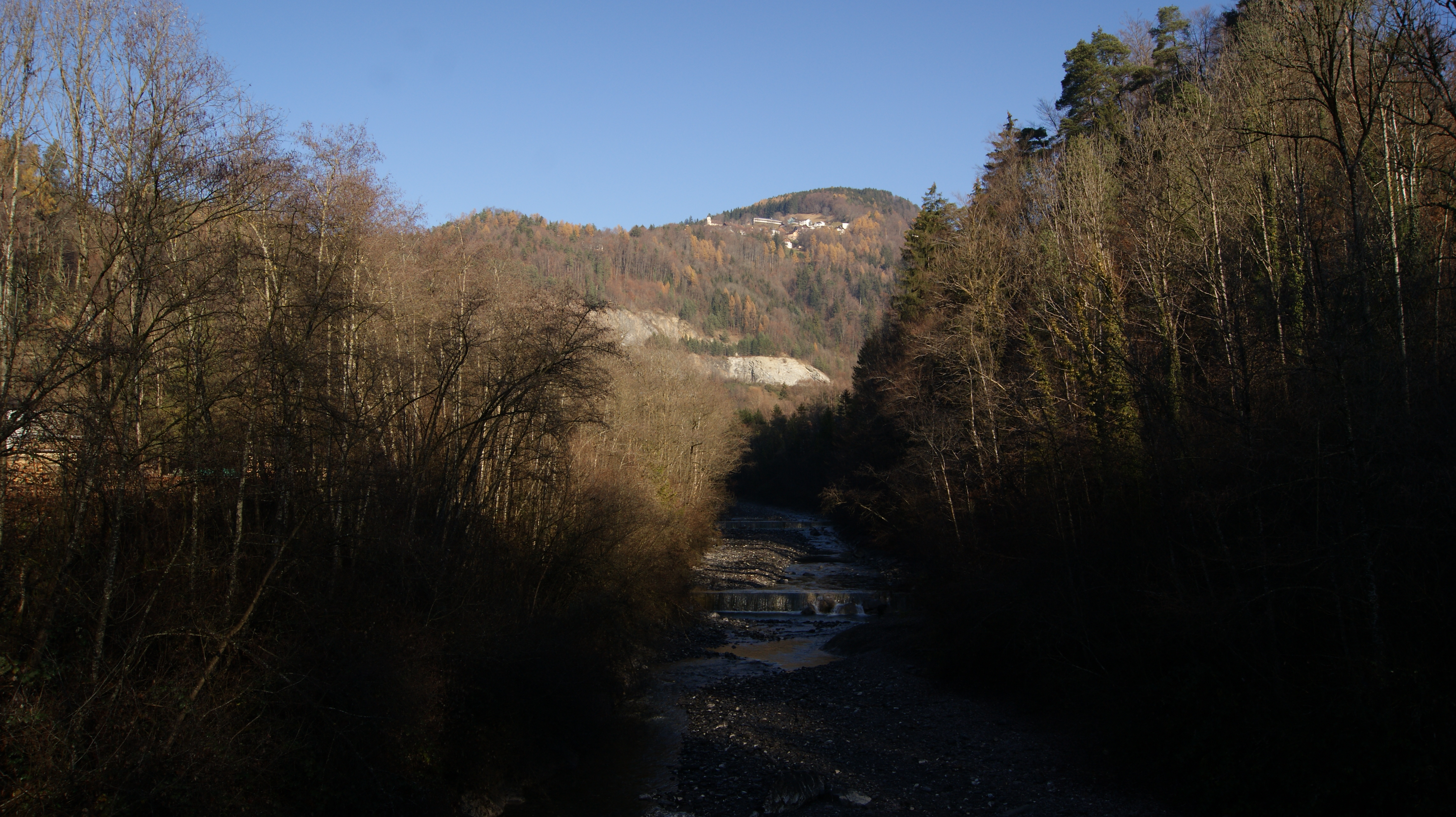 River "Froedisch" in Roethis in Vorarlberg, Austria, shortly before the confluence with the Muehletobel(bach). In the Background up: Viktorsberg (879 masl)